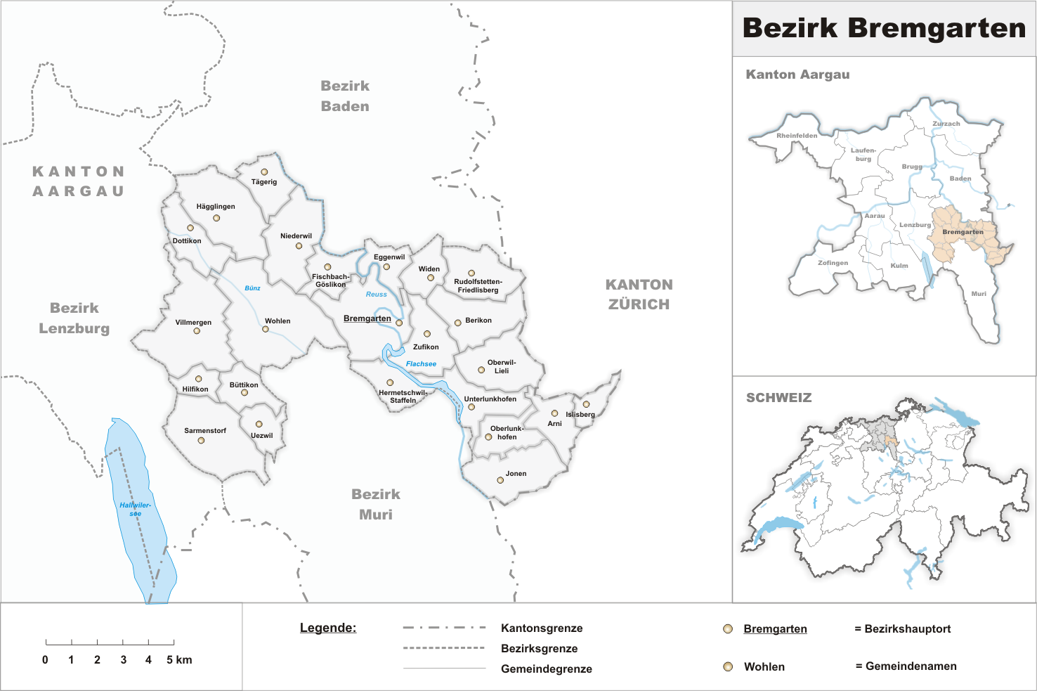 Municipalities in the district of Bremgarten